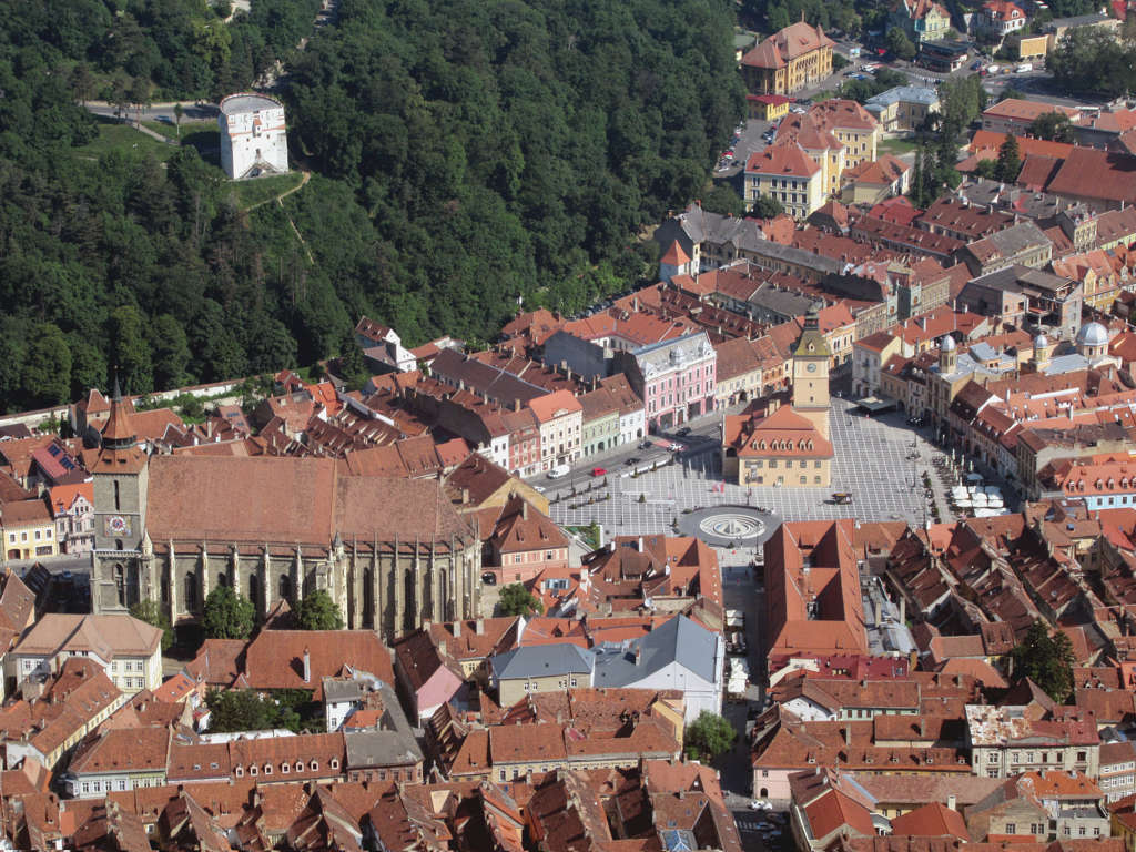 The 15th century Council House dominates the center of medieval Brasov, Romania, Saxon German merchants founded Kronstadt in the 12th century.